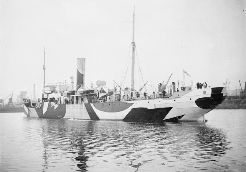 Photograph of ANCHUSA class convoy sloop HMS SAXIFRAGE dazzle-painted. She was later RNVR drill ship HMS PRESIDENT.